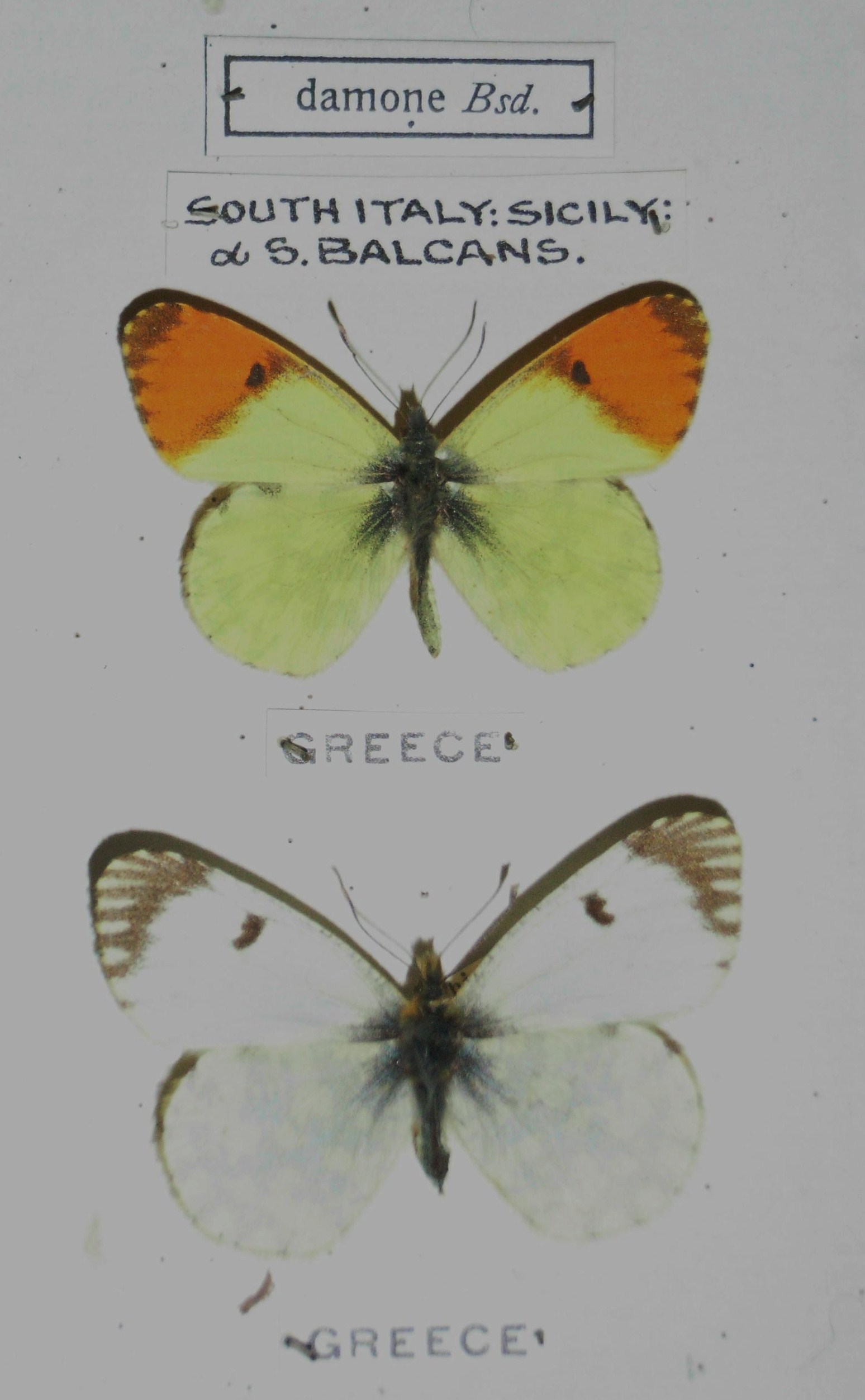 Anthocharis damone